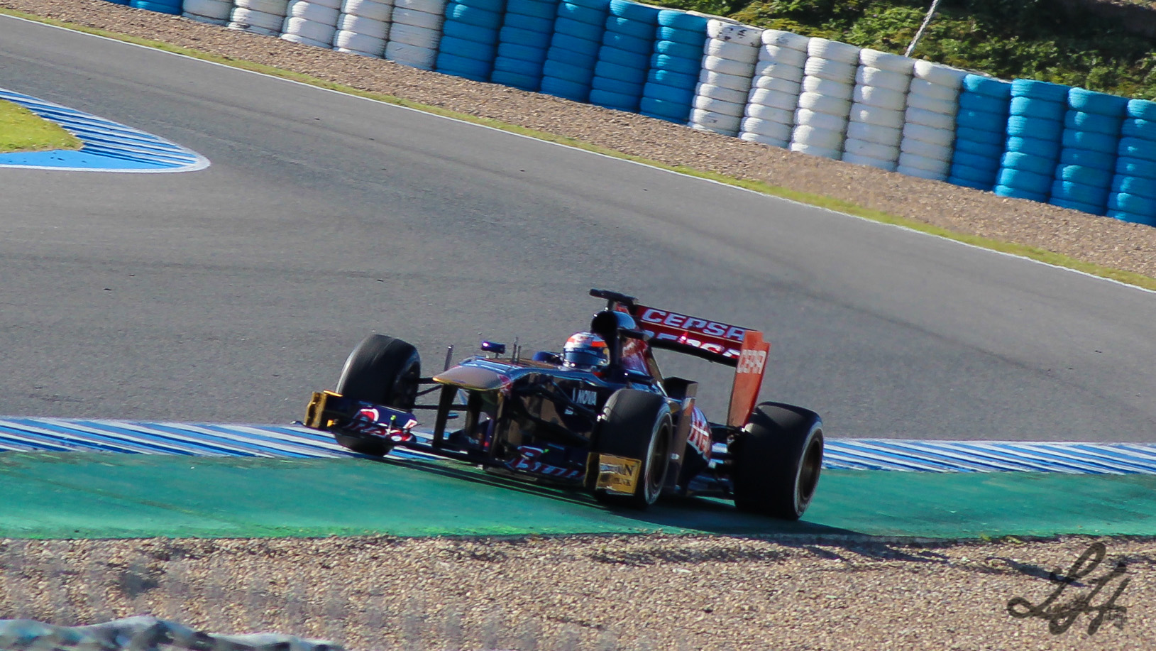 Ricciardo driving the Toro Rosso STR8